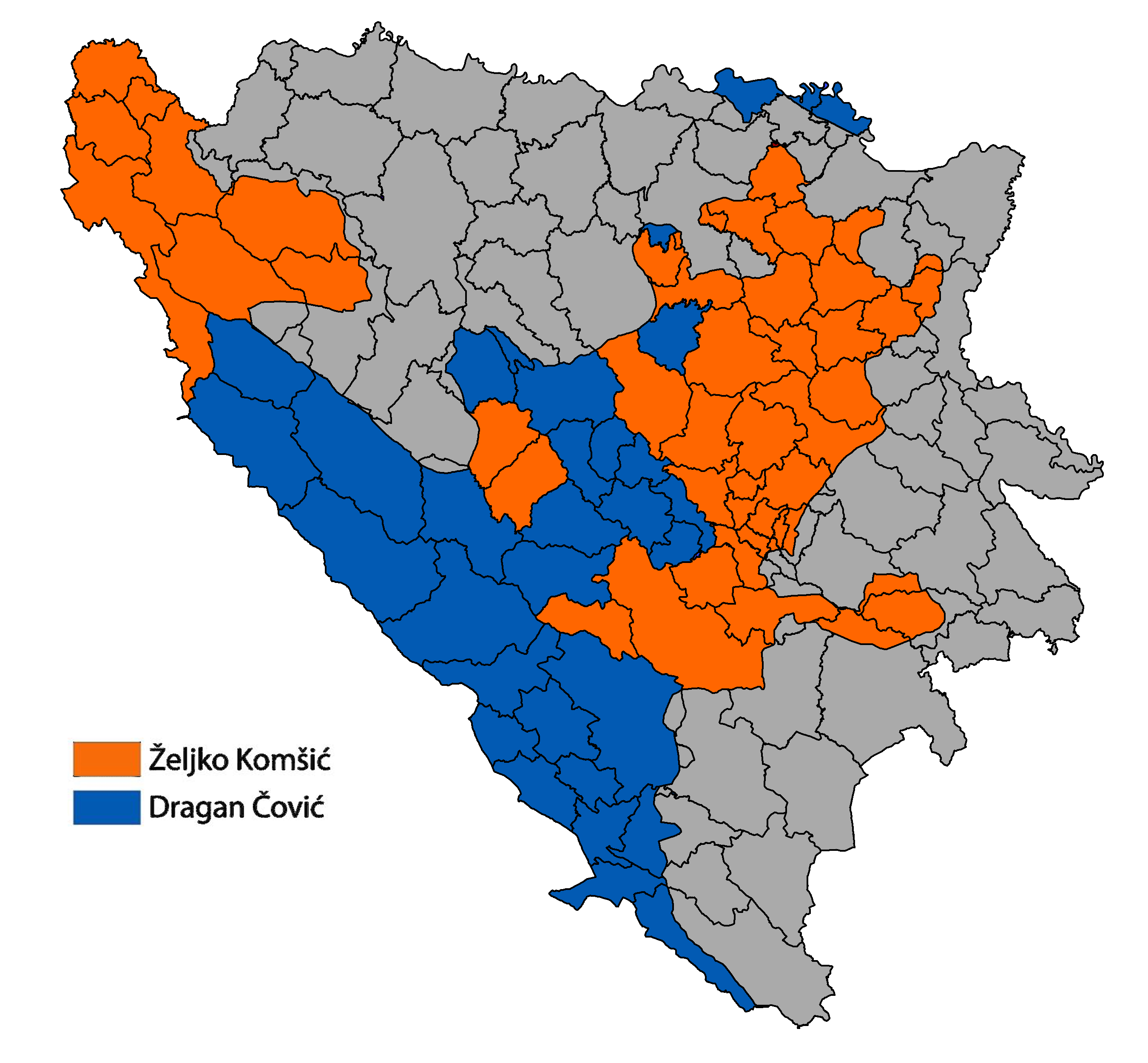 Bosnian presidential election 2018 per municipalities